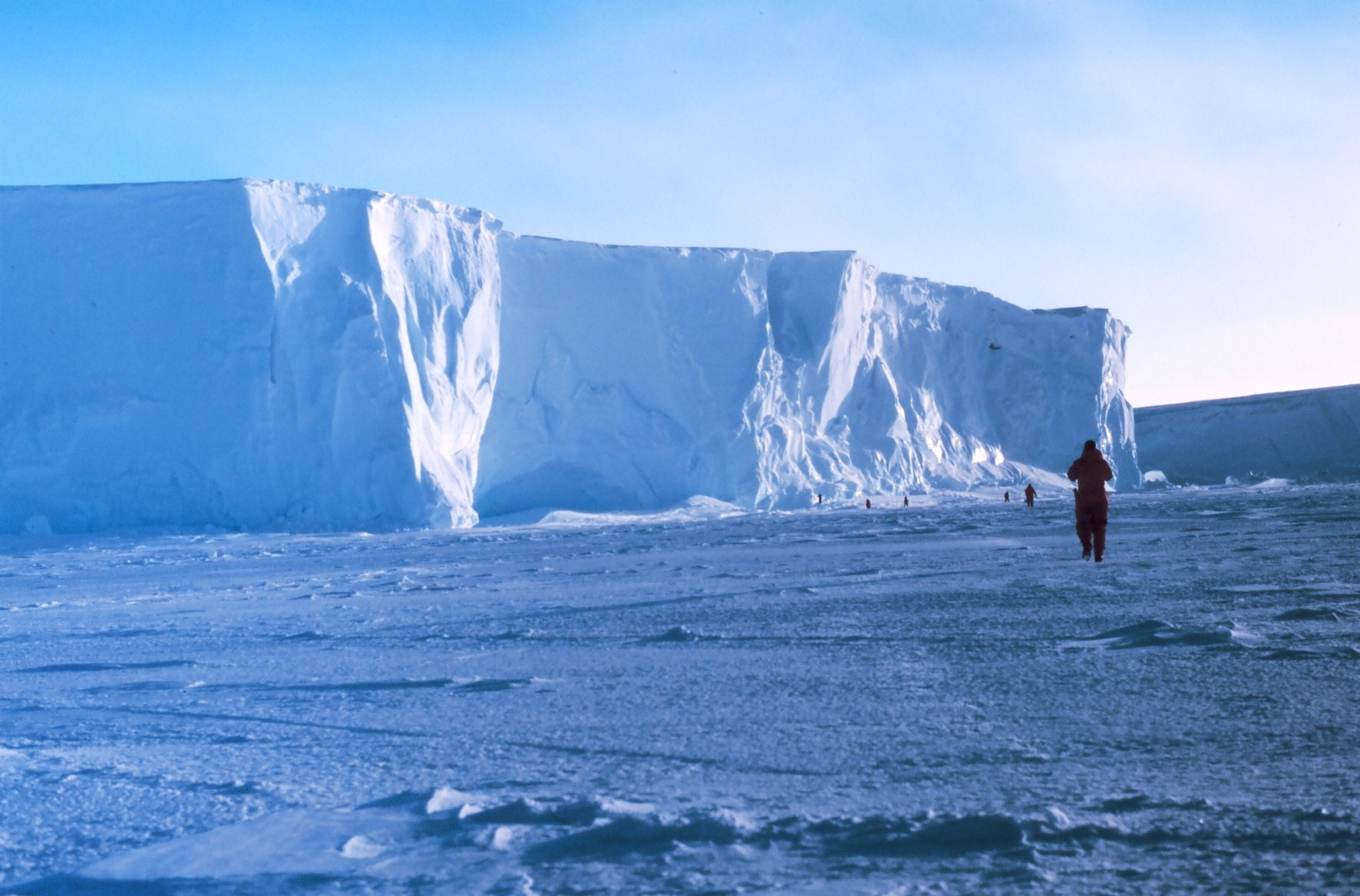 The Ross Ice Shelf at the Bay of Whales - the point where Amundsen staged his successful assault on the South Pole. 78 30 S Latitude 164 20W Longitude. Antarctica.